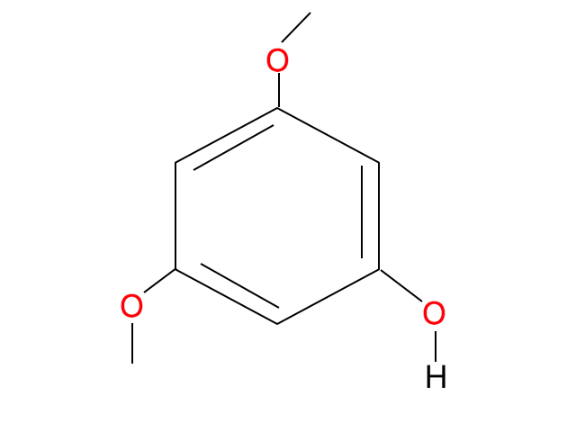 3,5-Dimethoxyphenol, the molecule